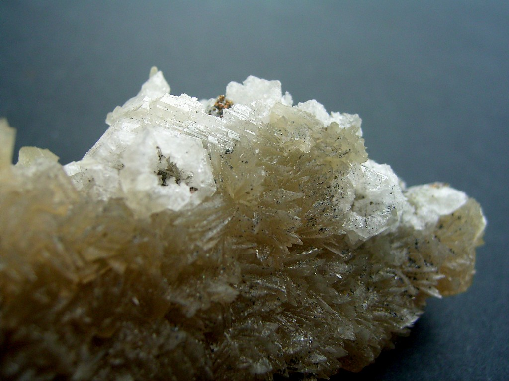 Witherite and Barytocalcite Locality: Rosebery Mine, Rosebery, Rosebery district, Tasmania, Australia Original description: White witherite (hexagonal prisms, hollow) with barytocalcite (new find, confirmed by XRD). FOV ~50mm